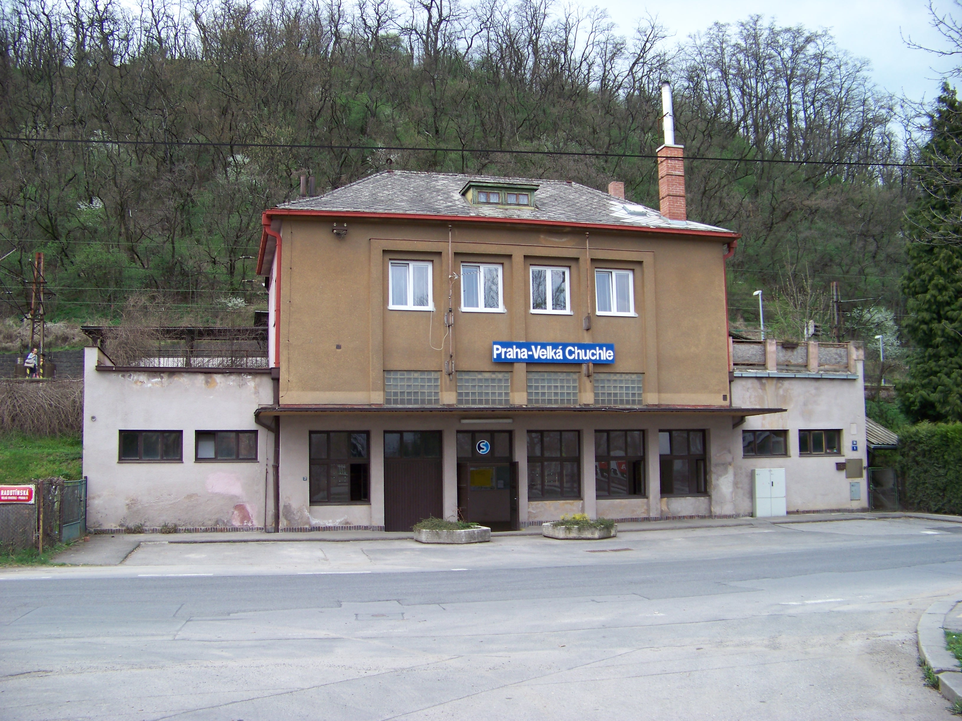 Prague-Velká Chuchle, the Czech Republic. Radotínská street, a train station.